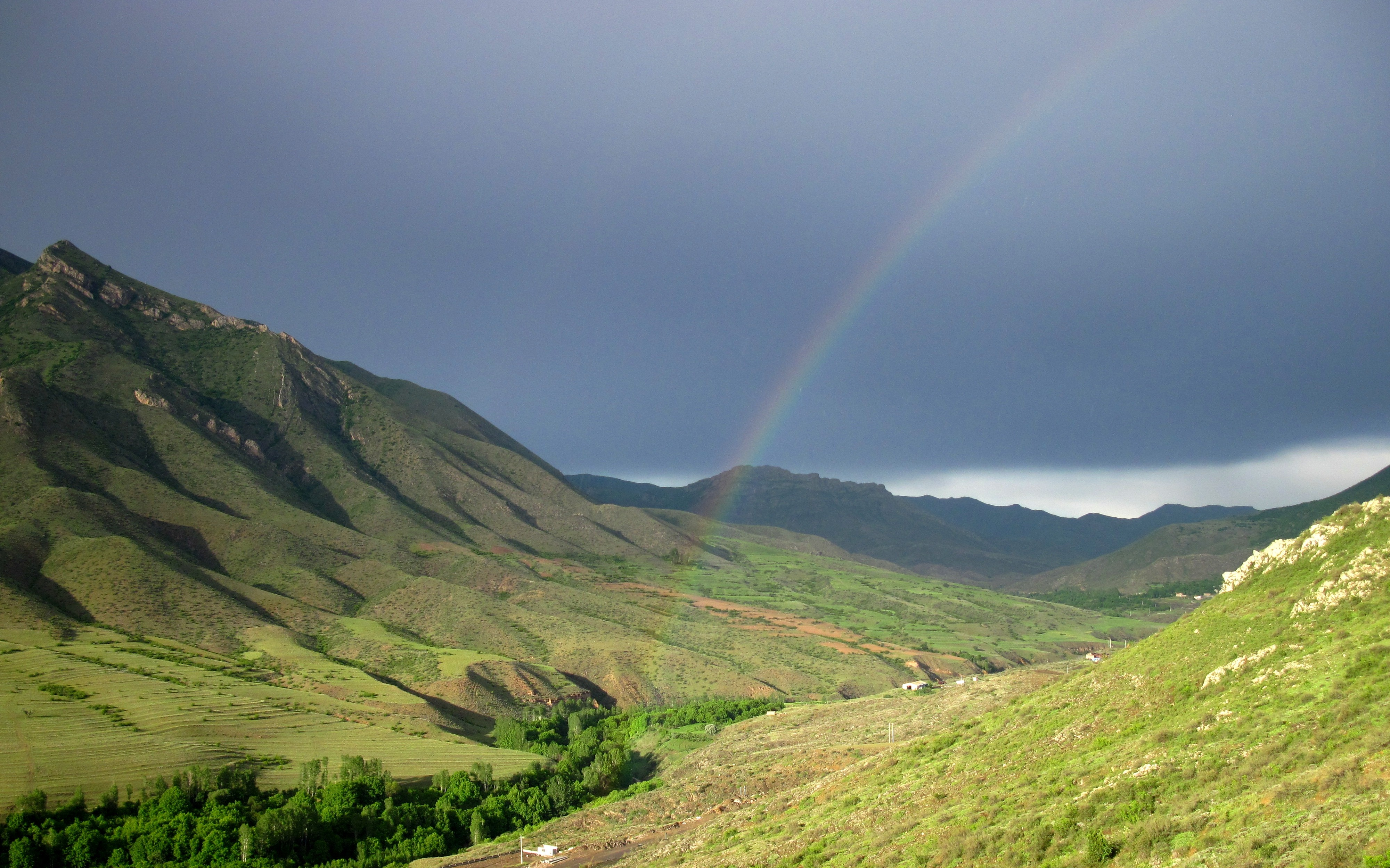 Ravanbakhsh Leysi took this photo of Meqas-e Jadid village.